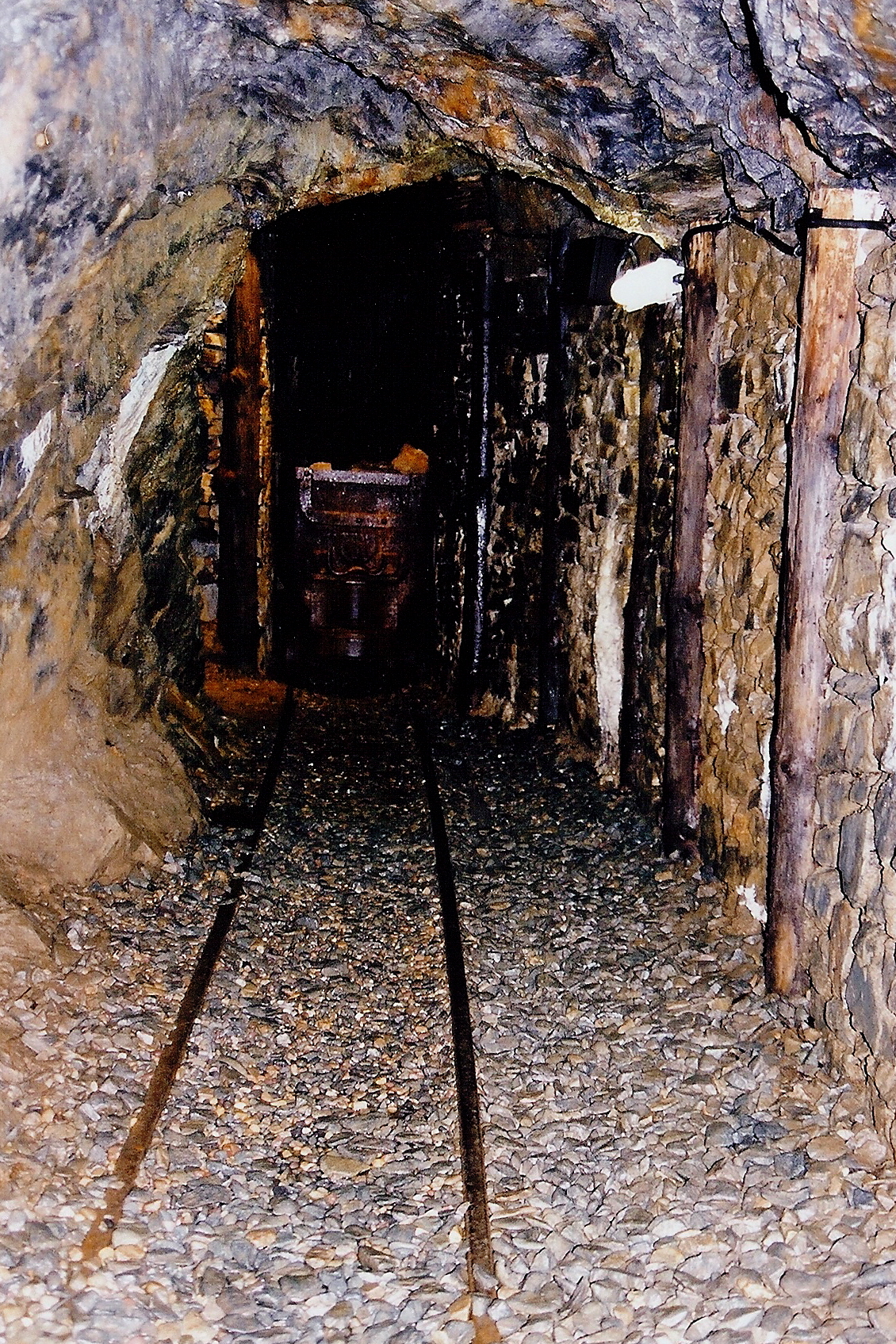 Laxey - The Mines Trail - Inside The Old Adit View is to the north from the entrance to The Old Adit (mine).